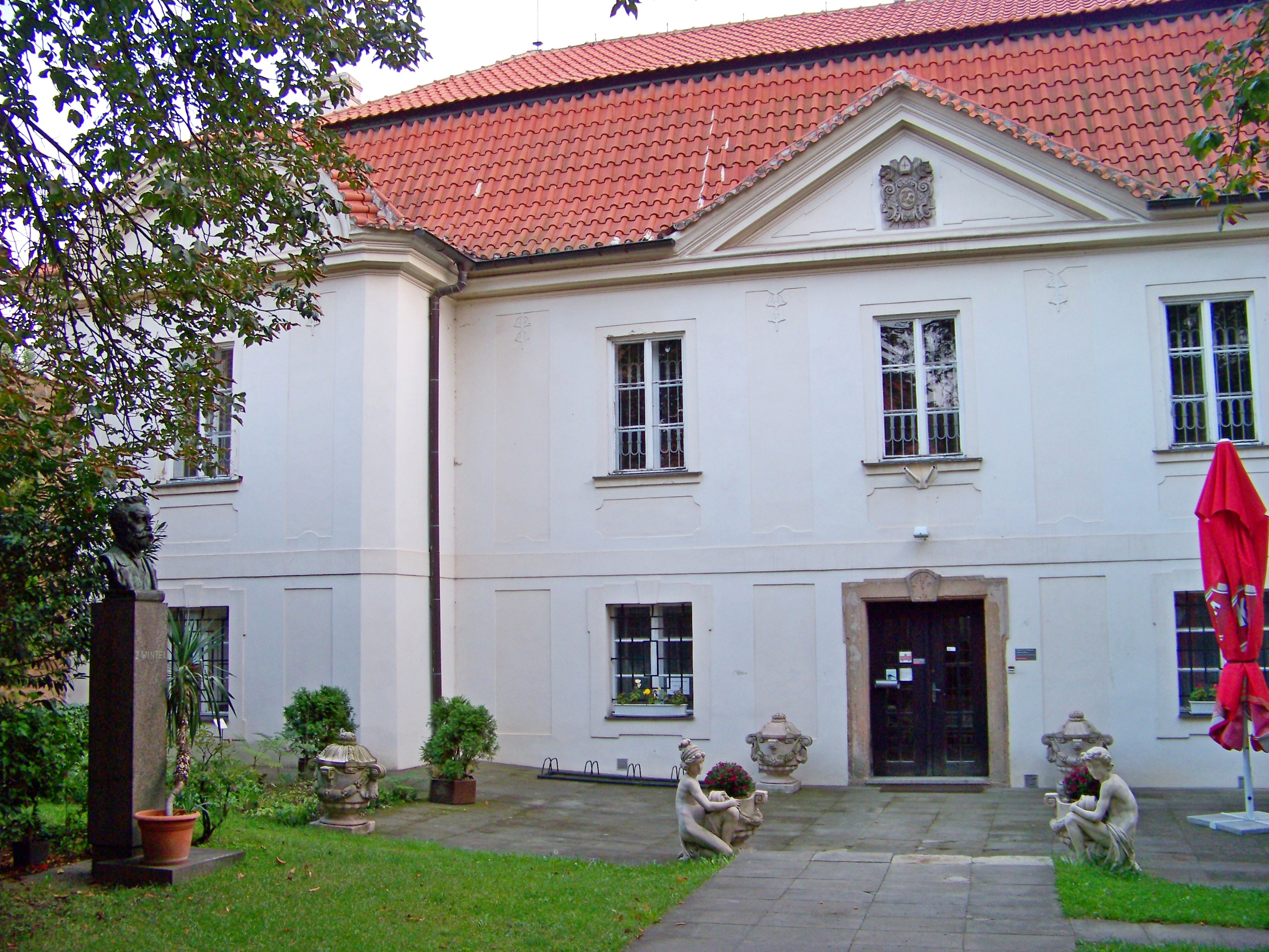 Rakovník I, Rakovník District, Central Bohemian Region, the Czech Republic. Žižka Square 1, Museum of Tomáš Garrigue Masaryk, former Cistercian house.